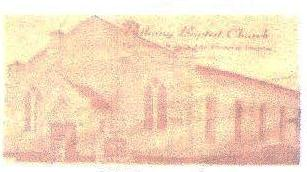 The former Chesnut Street Methodist Episcopal Church, South of Berkley, late 1950s-1980s home of Bethany Baptist Church, Berkley-South Norfolk